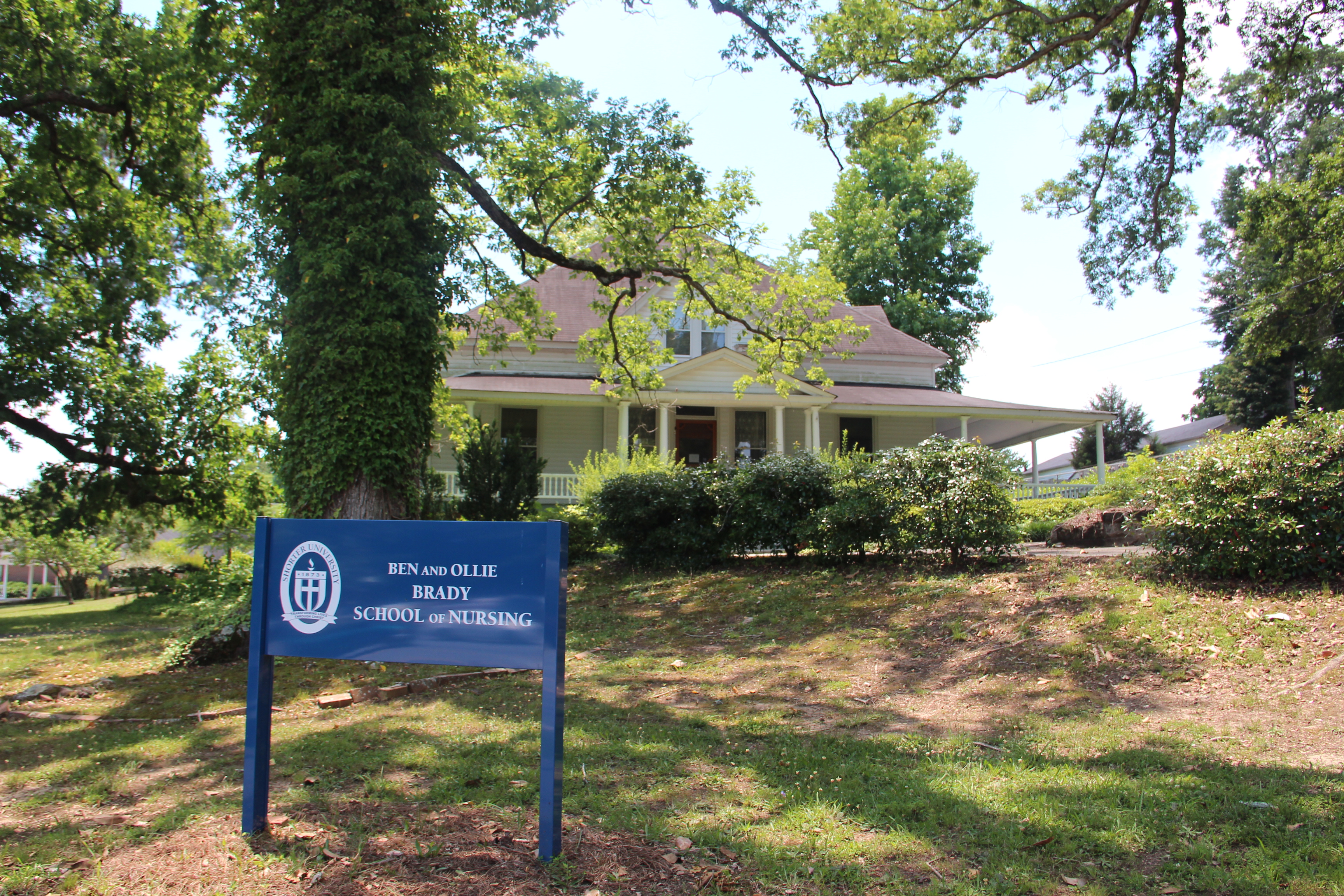 Shorter University's Ben and Ollie Brady School of Nursing, Rome, Georgia